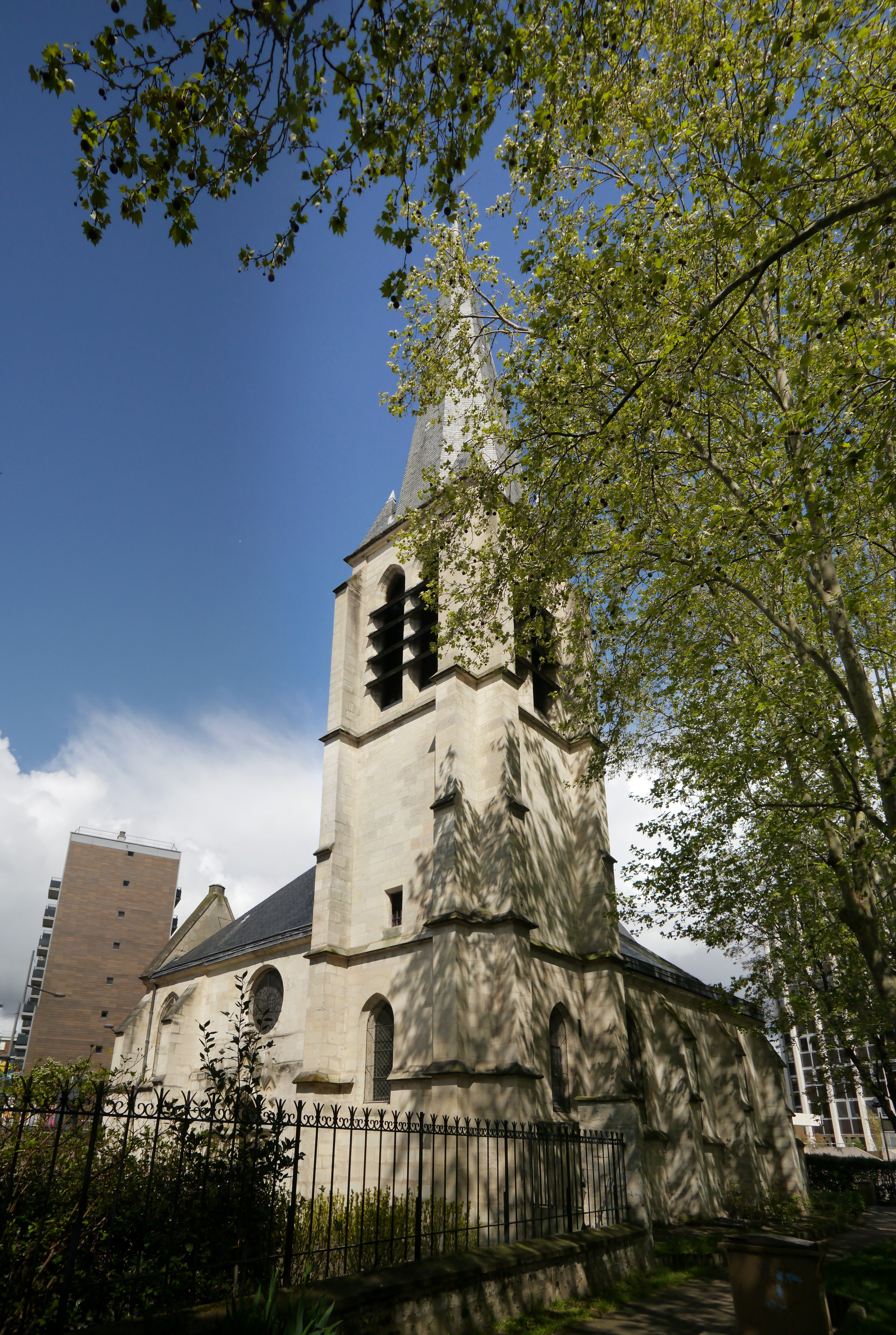 Gentilly, Val-de-Marne, France. Église Saint-Saturnin.